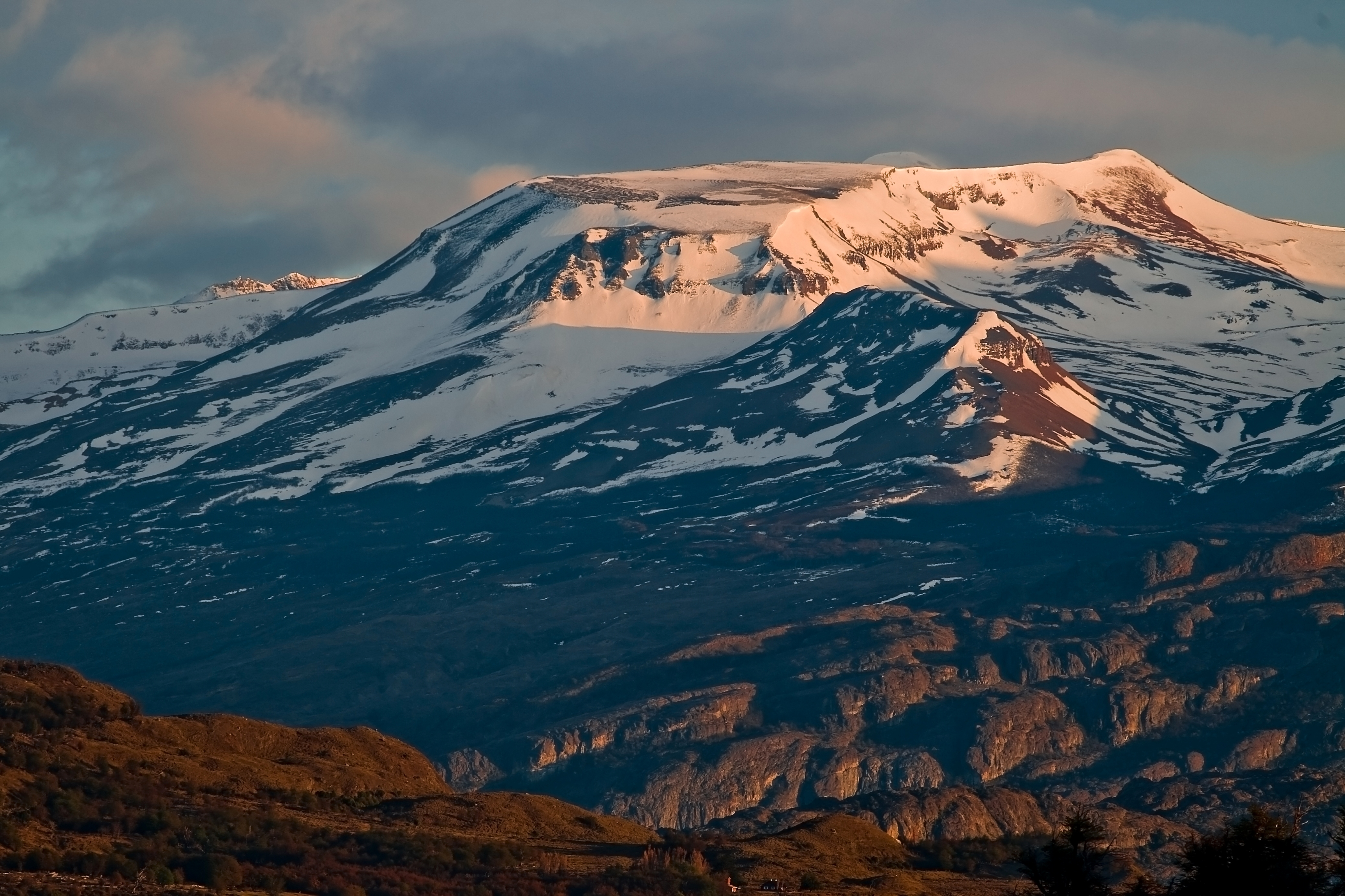 Early in the morning in the Andes by Argentino Lake, Santa Cruz, Argentina.